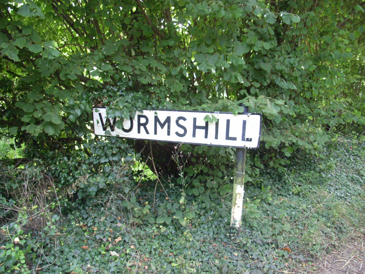 Wormshill name plate road sign. Older style name plate road sign at the northern end of the village as you approach from Sittingbourne on the Bottom Pond Road